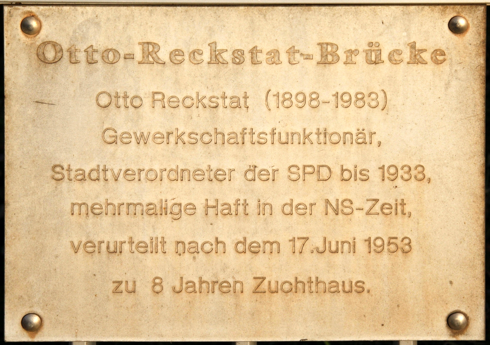 Plaque to the memory of Otto Reckstat in Nordhausen (Thuringia, Germany).